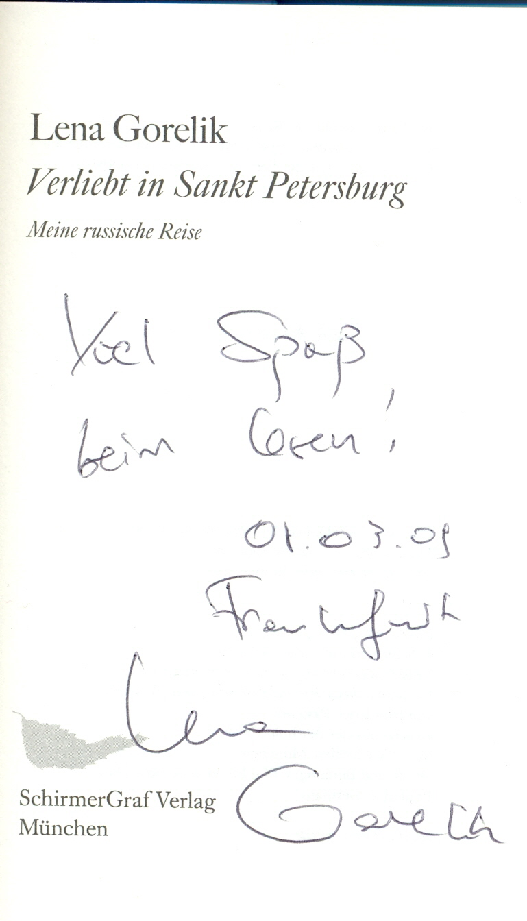 autograph from Lena Gorelik (German writer)